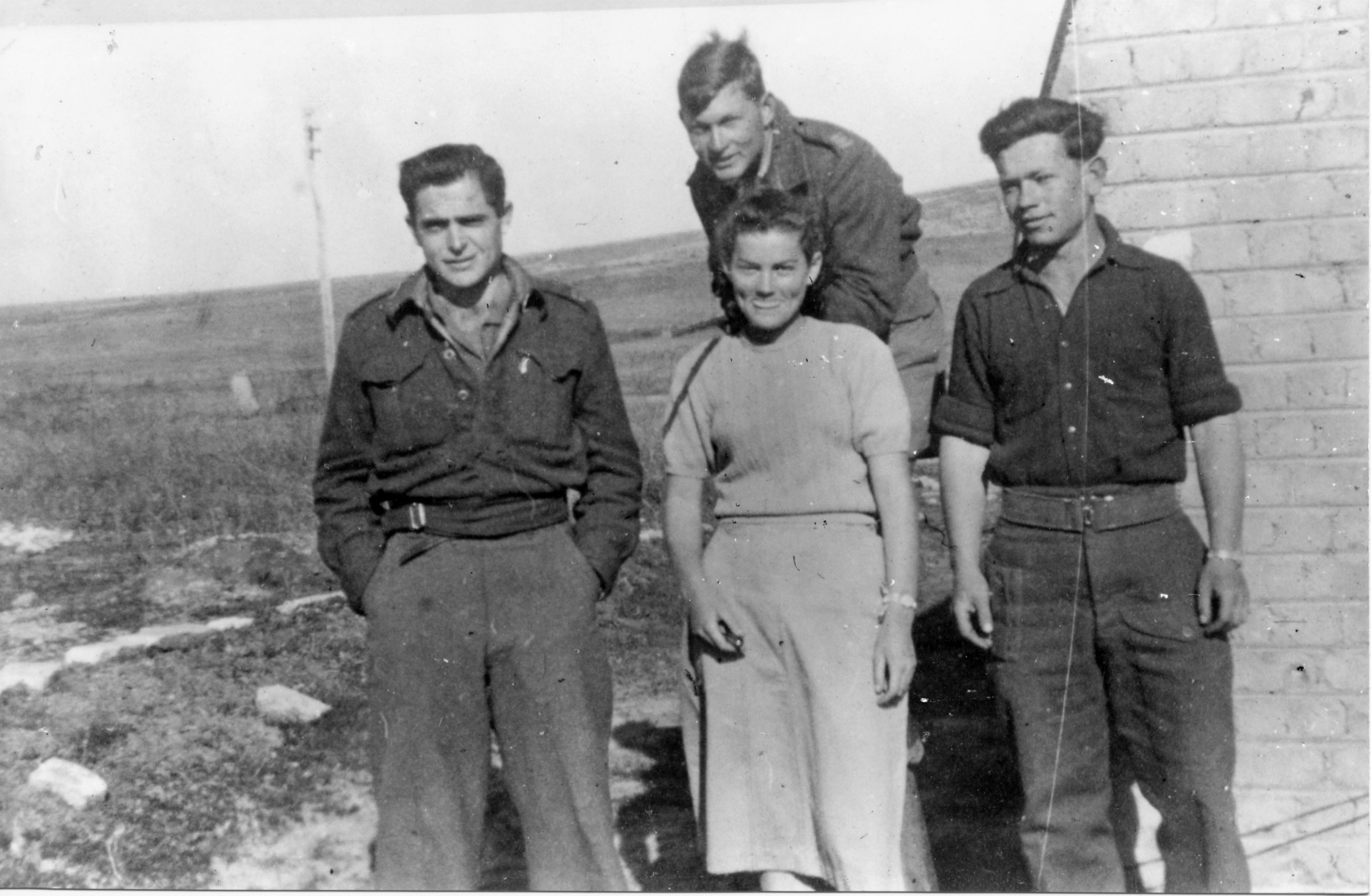 The Palmach, Israel Defense Forces